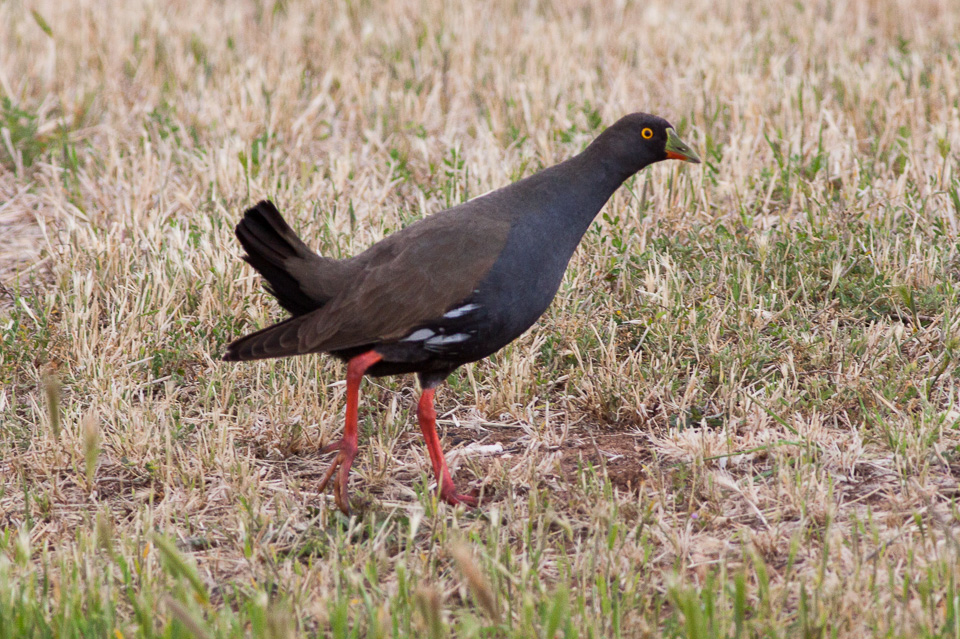 Black-tailed Nativehen Tribonyx ventralis, between Nhill and Ouyen, Victoria, Australia